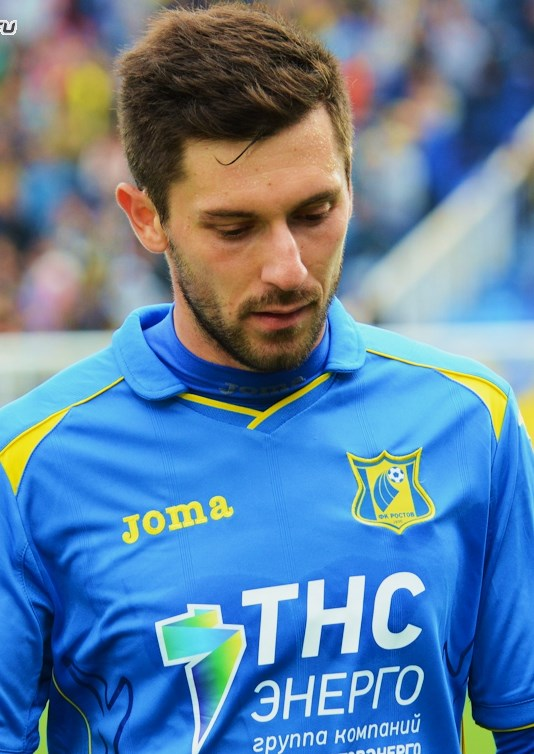 Hrvoje Milić